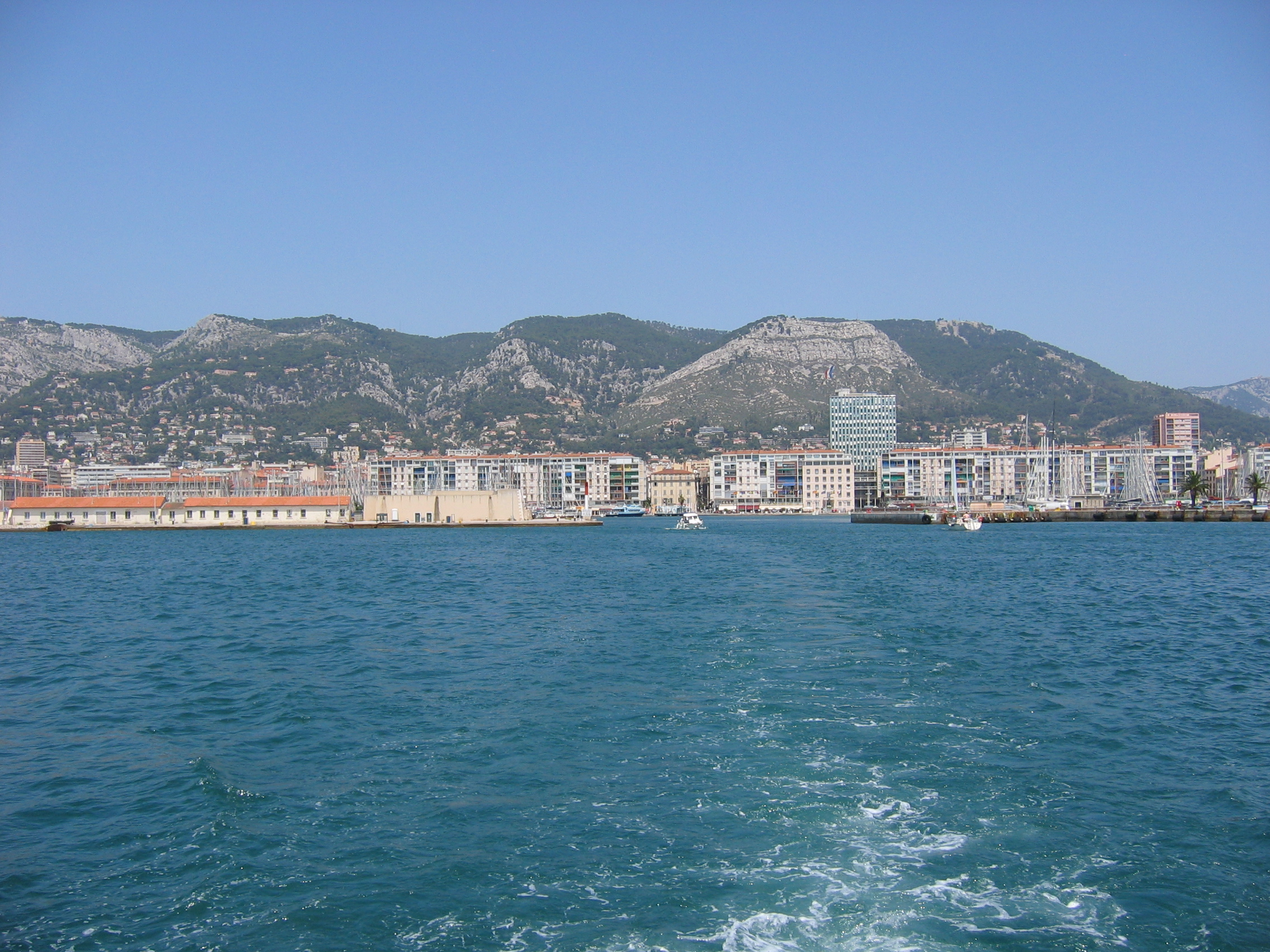 Toulon from the bay